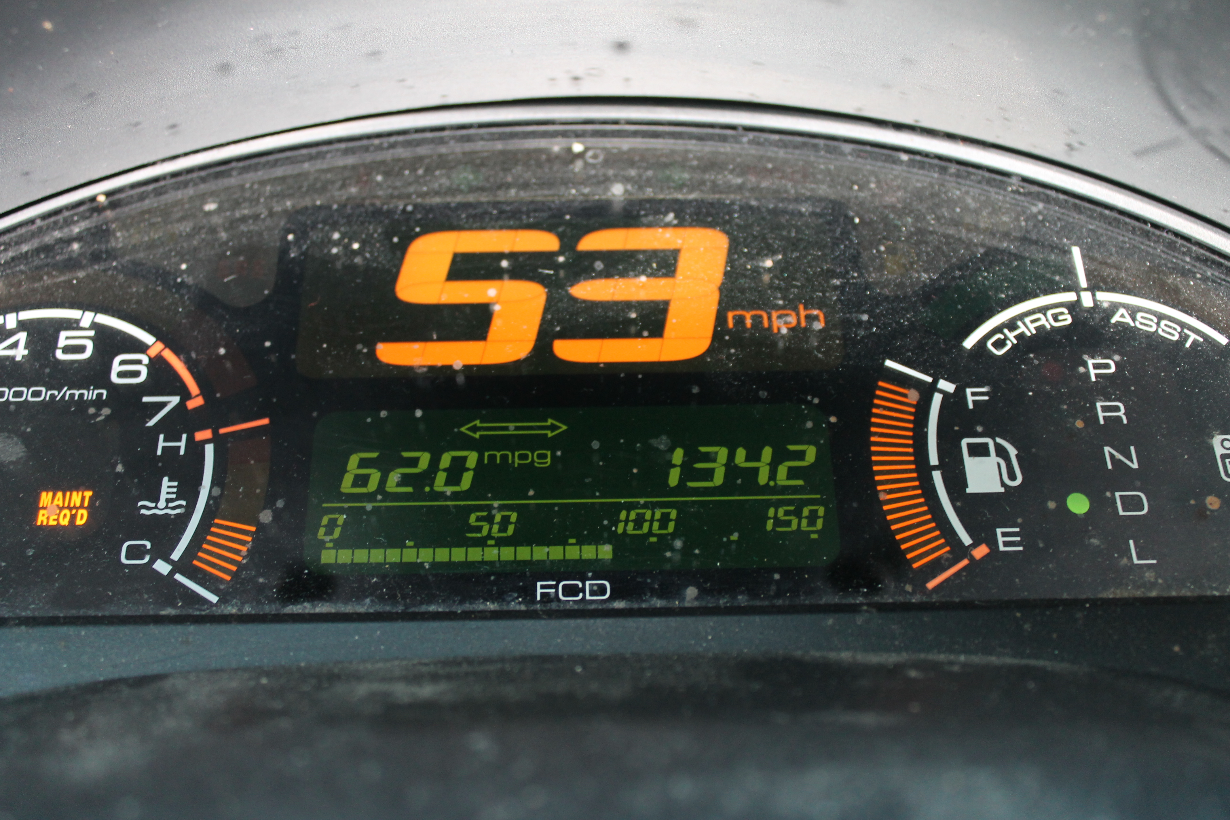 shows that the car is getting 62 mpg for the most recent 134 miles (since last tank fill up) Yes, we took the picture while driving.